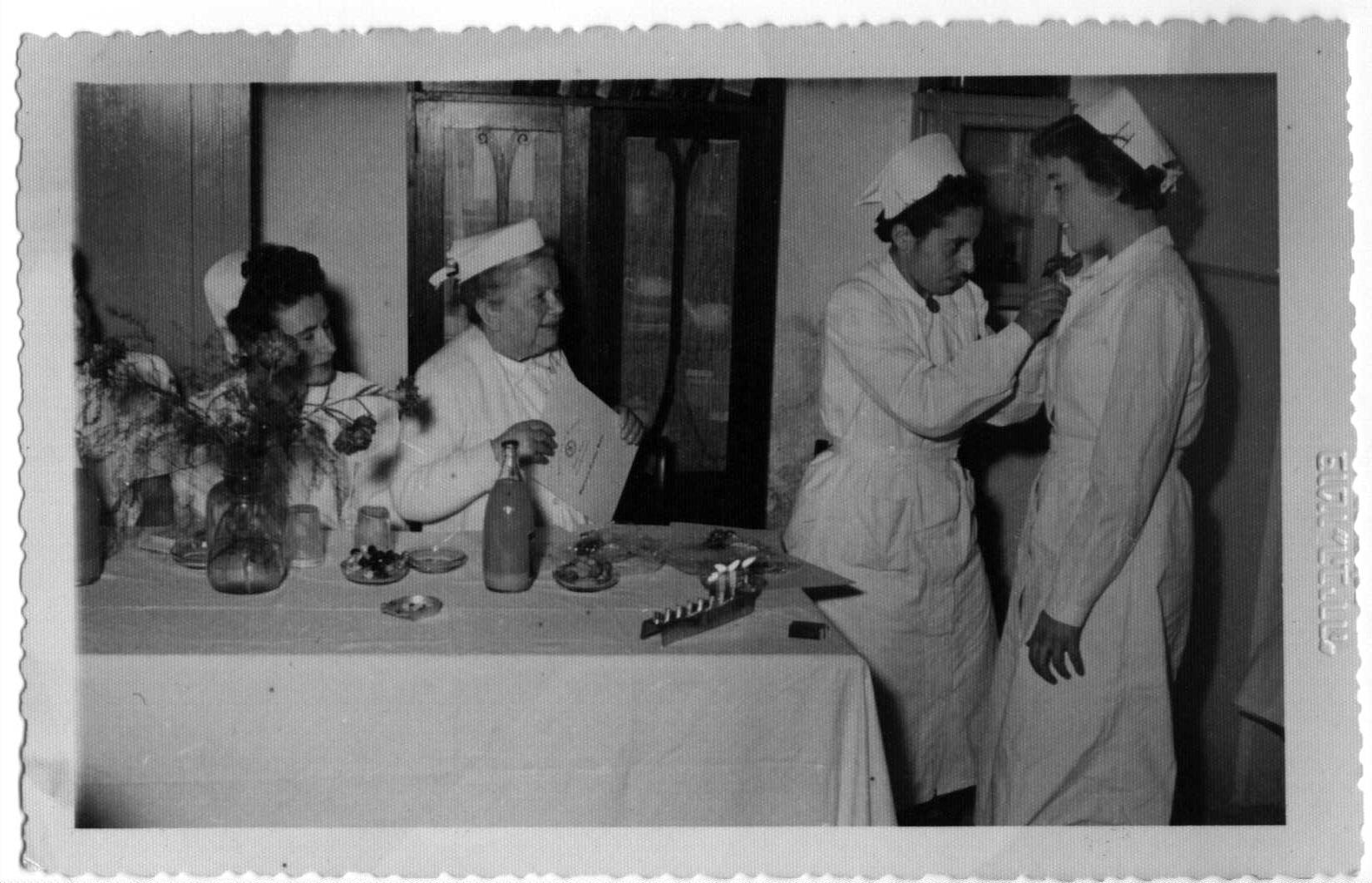 A professionally-trained nurse receives a nurse's pin as Schwester Selma Mair (first head nurse of Shaare Zedek Hospital), second left, looks on